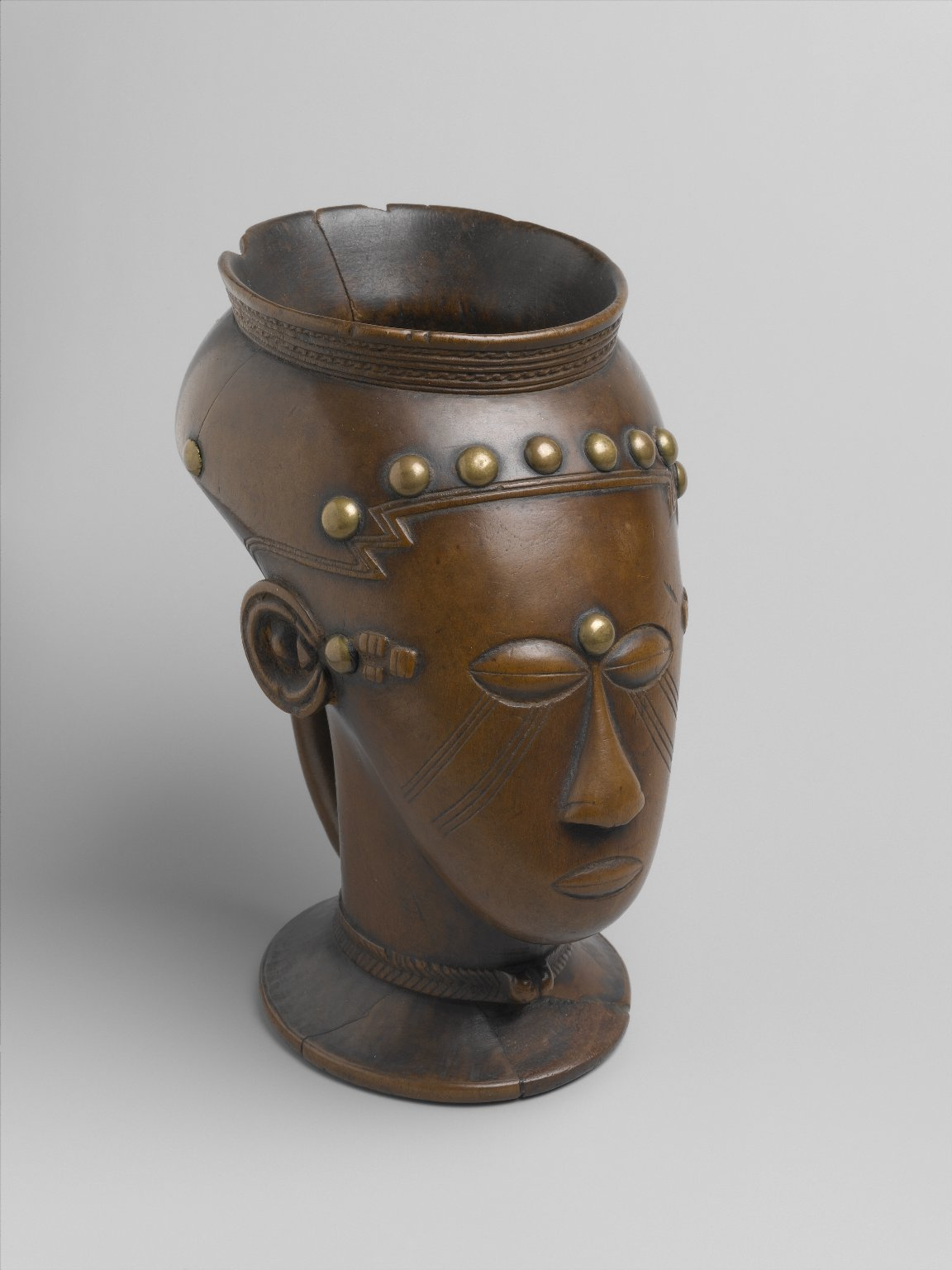 Wooden cup for ritual drinking of palm wine, in the form of a human head, with handle. Decorated at hairline, between eyes at temples with brass tacks. Condition: Base chipped has been broken and repaired. For centuries, among the Kuba, indications of personal status have been an important element in crafted objects. Even ordinary utilitarian items such as drinking cups for palm wine may indicate wealth and status through elegant carvings and decorations. Frequently, cups intended for use by rulers are carved in the form human head with a distinctive hairstyle associated only with royalty. Far more rare are cups carved with full figures.